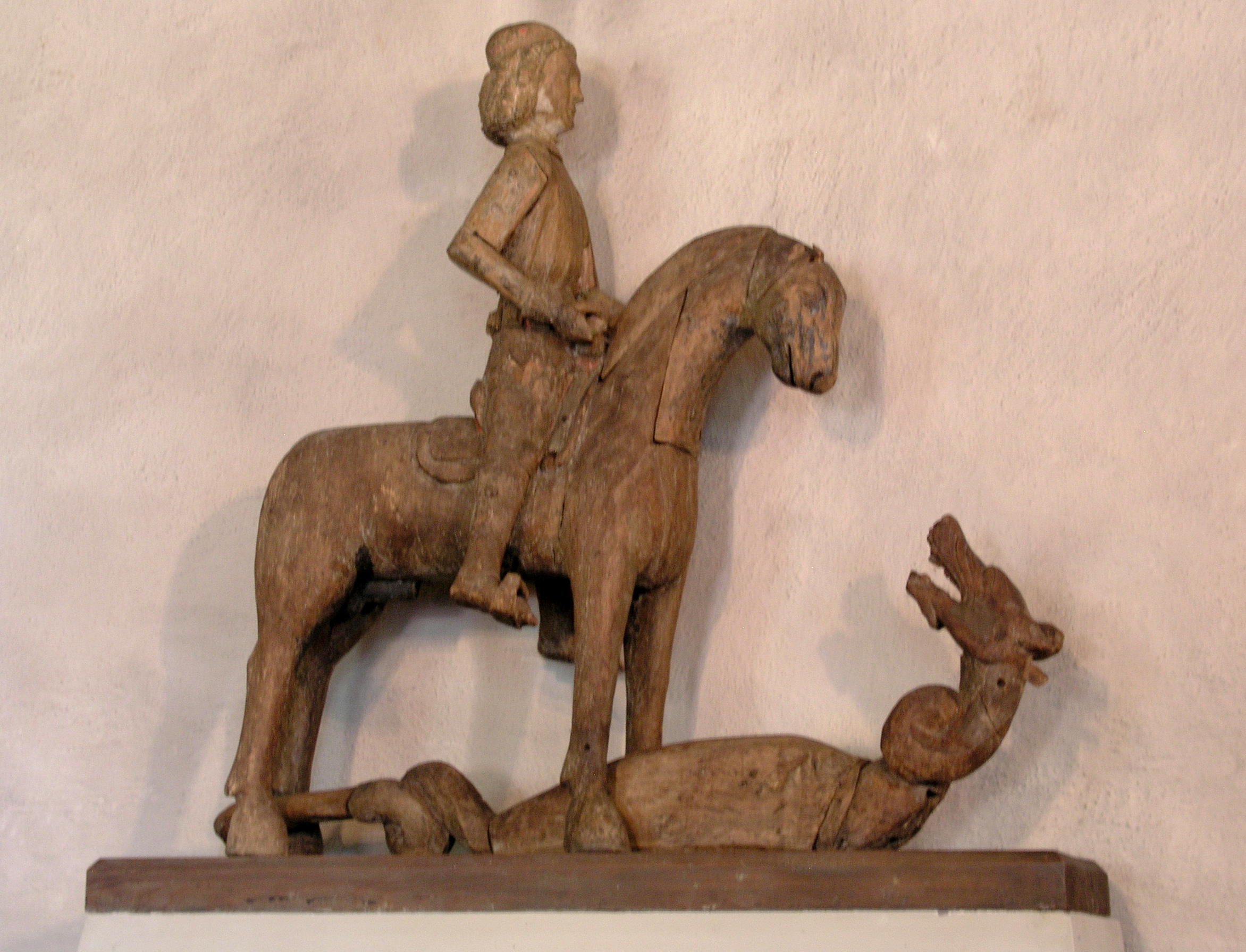 Visnums-Kils kyrka, St George and the dragon